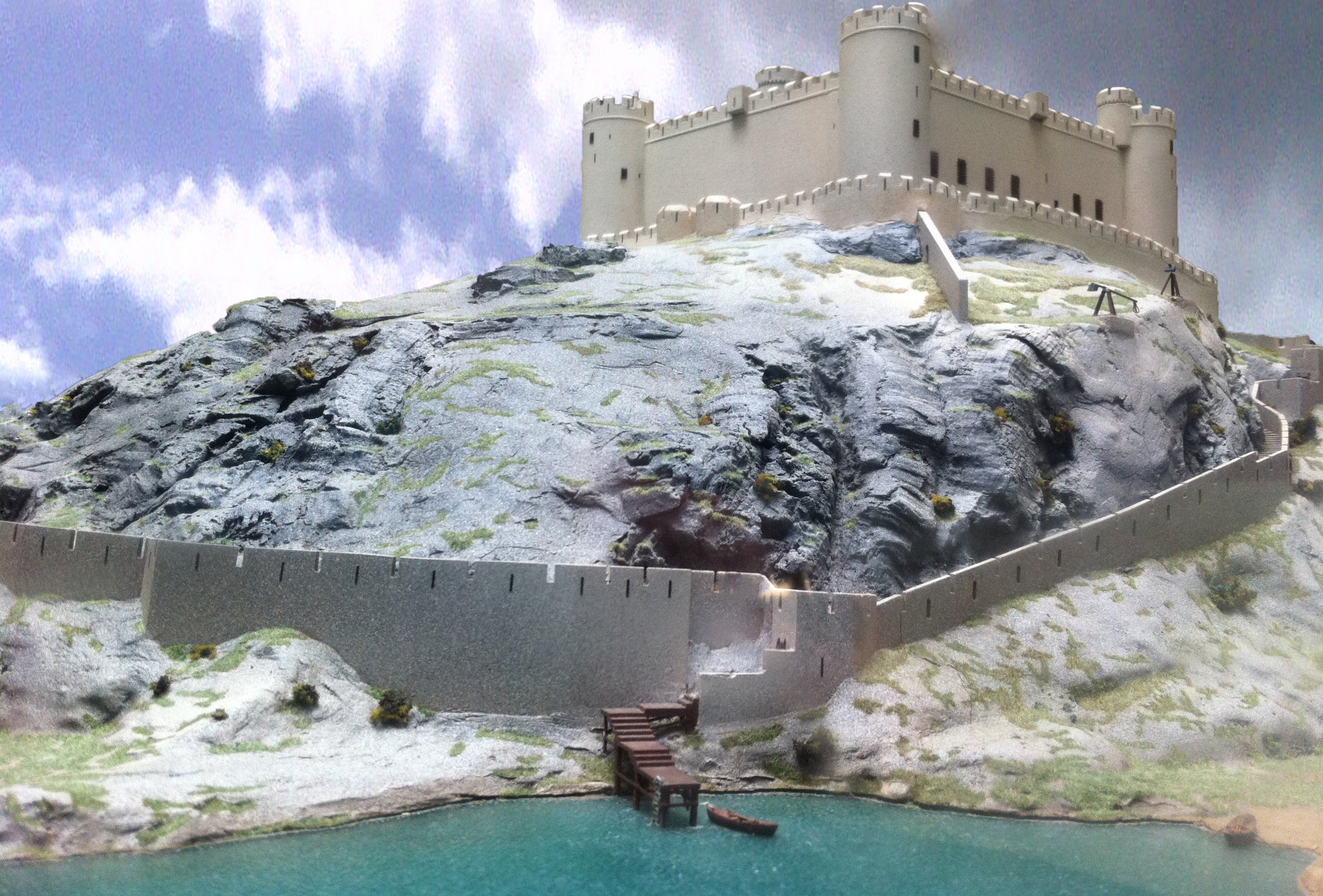 Reconstruction of Harlech Castle; photograph of Cadw display model in public space at Harlech Castle, cleaned up, background sky added artificially by author